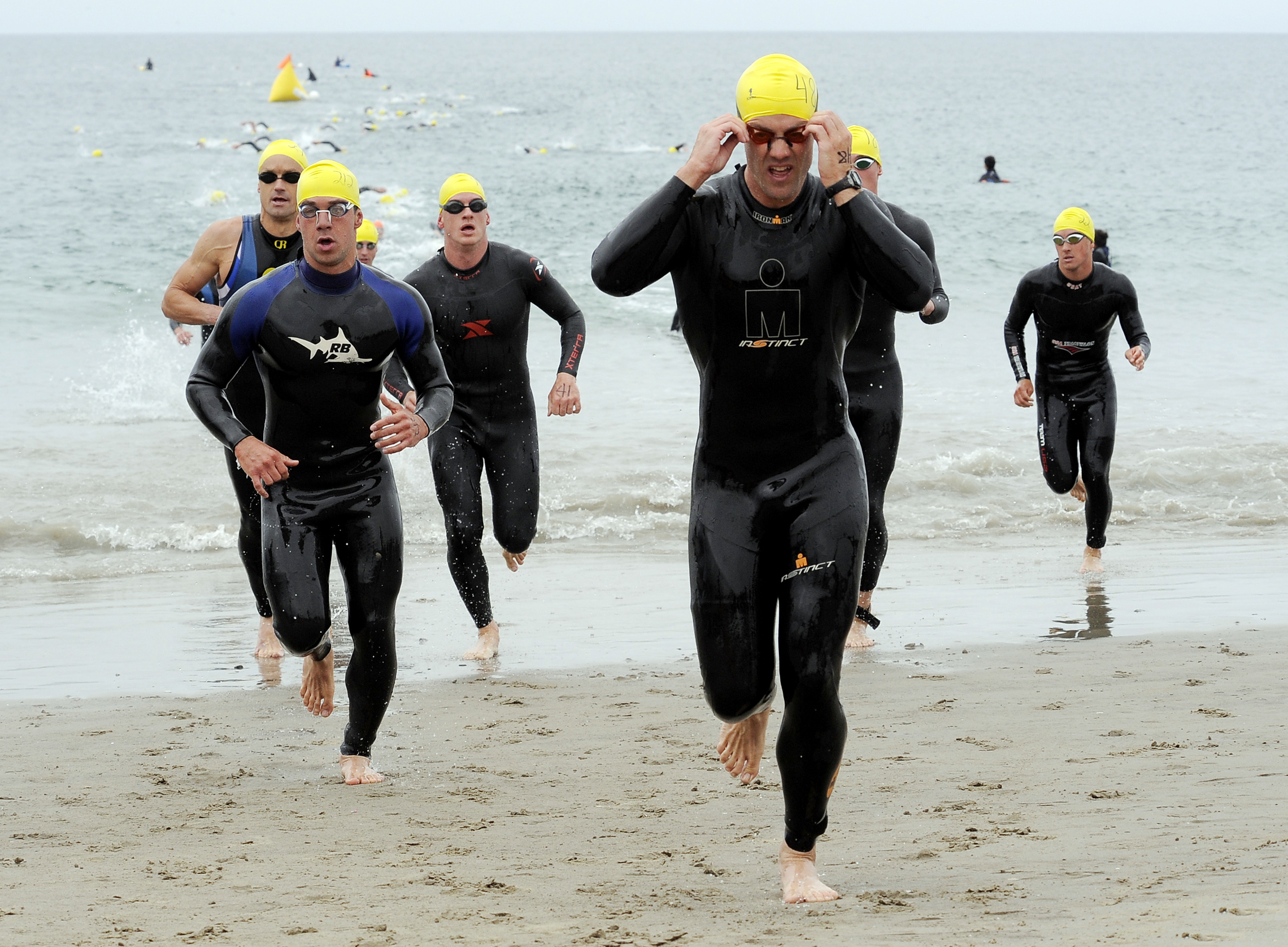 U.S. service members competing in the menâ€™s division of the Armed Forces Triathlon exit the water to a transition area at Naval Base Ventura County Point Mugu in California on May 30, 2009. In addition to the swim, the competitors also participate in a 40-kilometer bike ride and a 10-kilometer run.